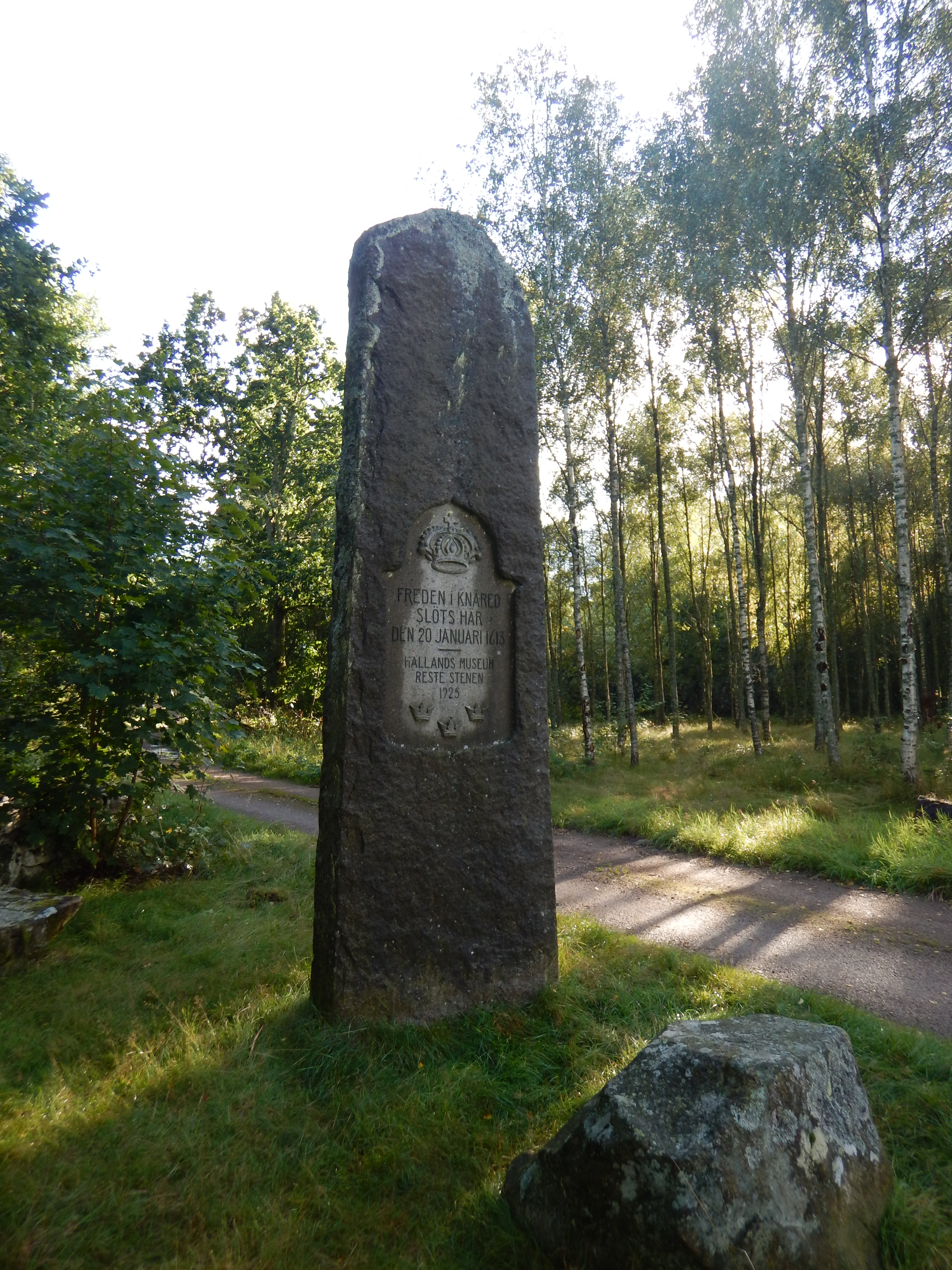 Treaty of Knäred Memorial Stone in Sjöared, Halland, Sweden. This side has text in Swedish. August 2017.